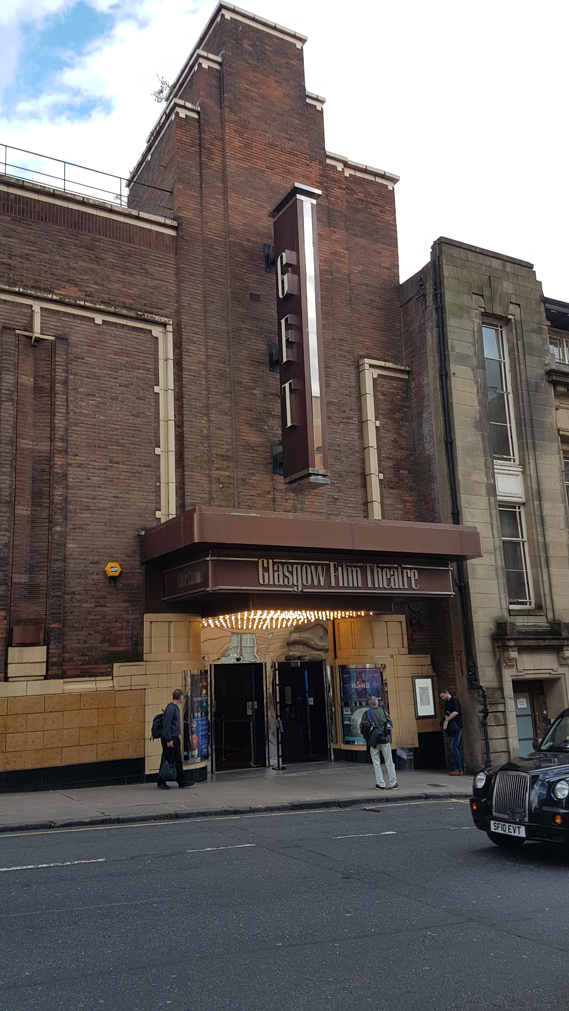 Glasgow Film Theatre Wikidata has entry Q5566806 with data related to this item.